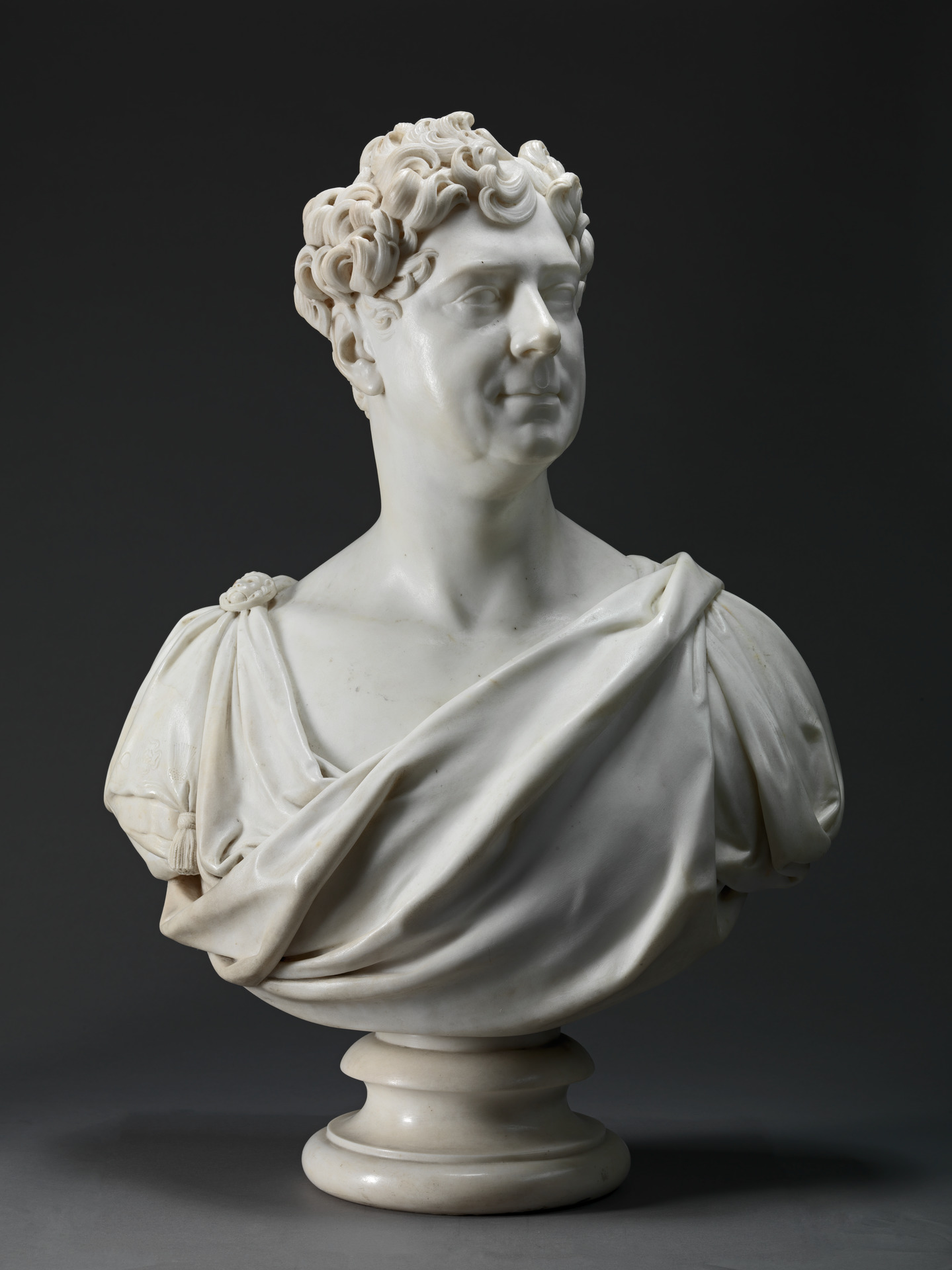 "George IV," marble bust, by the English sculptor Francis Leggatt Chantrey, dated 1827. 33 inches x 22 inches x 11 inches (83.8 cm x 55.9 cm x 27.9 cm). Courtesy of the Paul Mellon Collection, Yale Center for British Art, Yale University, New Haven, Connecticut.